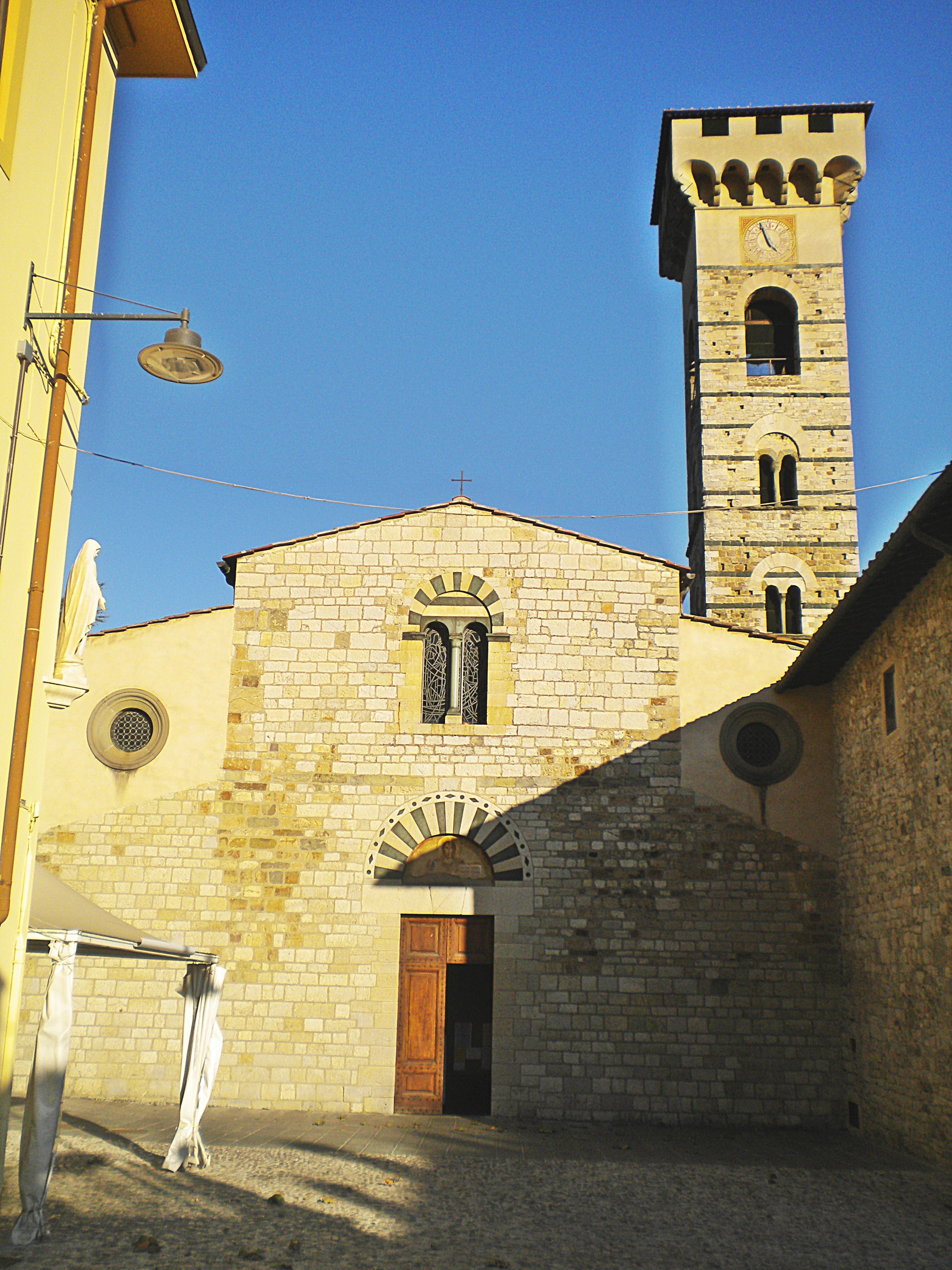 facade